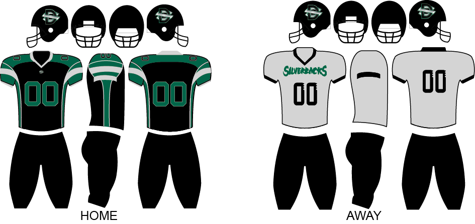 2011 Uniforms of the Dayton Silverbcks